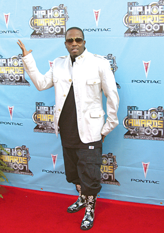 Big Boi at the BET Hip Hop Awards in Atlanta. October 14, 2007. Photo by Travis Hudgons/PictureAtlanta.Net